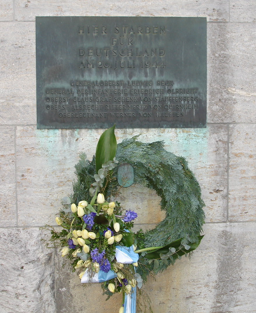 Picture taken Feb 17, 2007